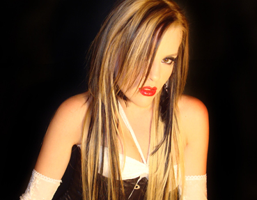 Ailyn promo picture made by me at her home